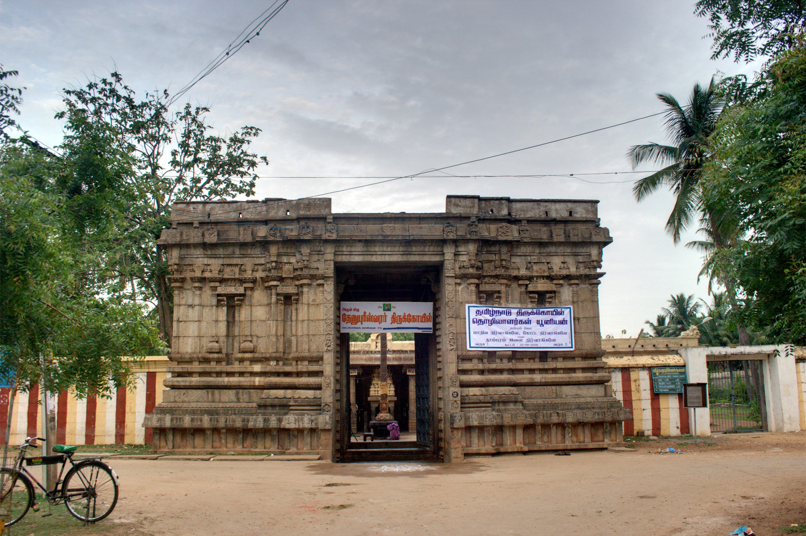 Taken at the Thenubureeswarar temple at Madambakkam. This temple was built by the cholas in 10AD and is currently maintained by the archaeological survey of india.